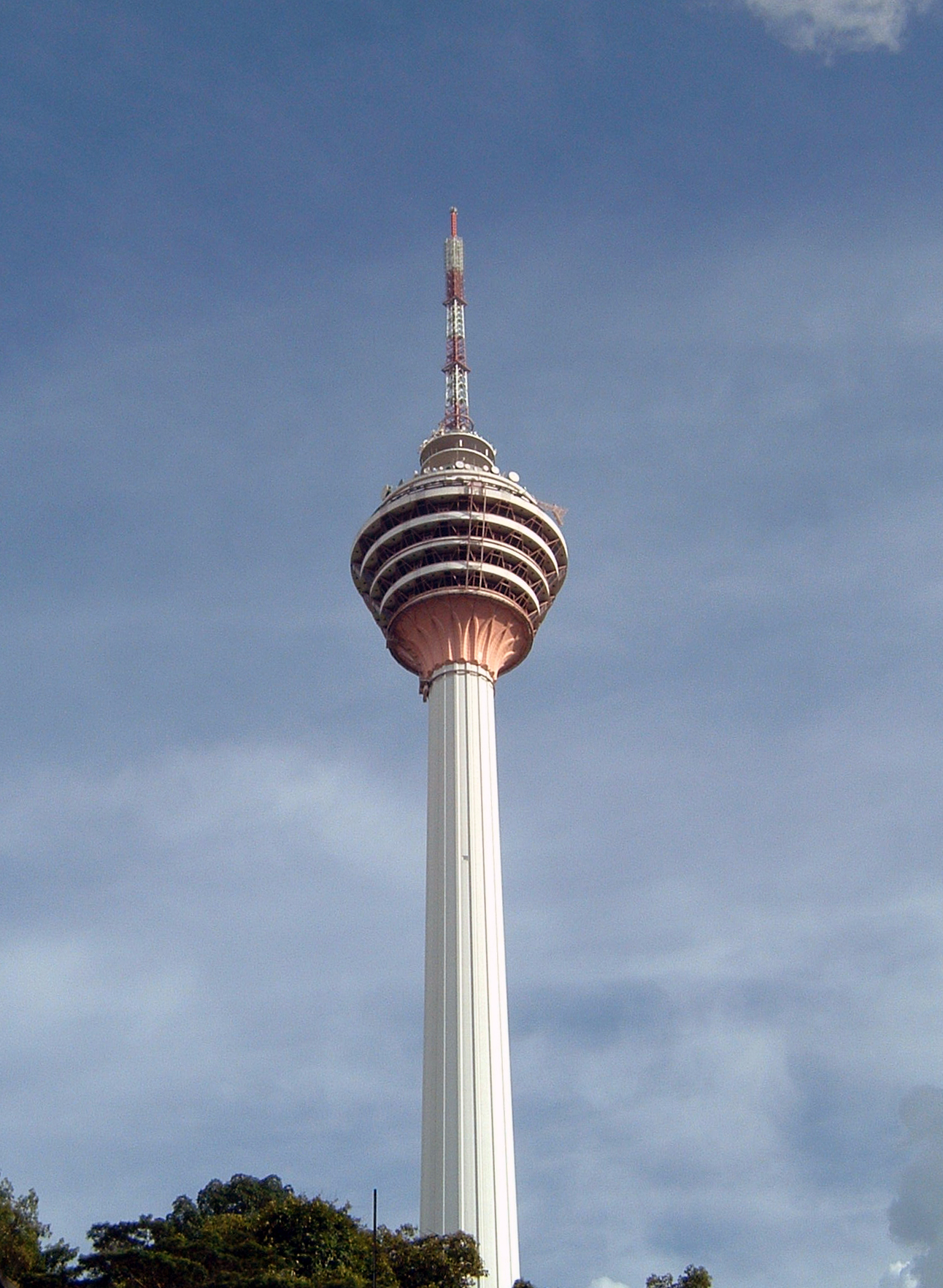 The Kuala Lumpur Tower in Kuala Lumpur, Malaysia By benja min, __earth 13:46, 5 December 2005 (UTC).